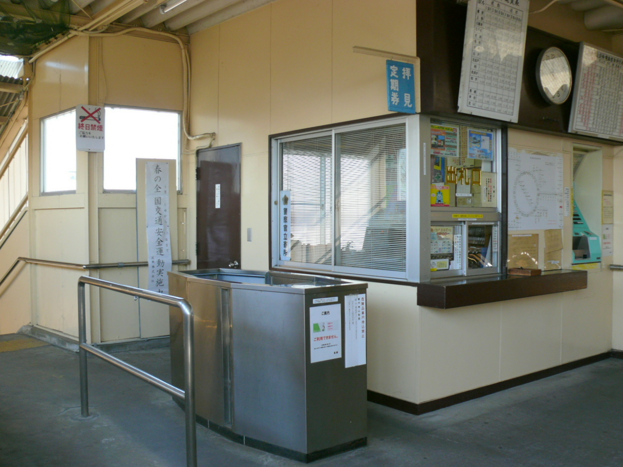 Ryutetu Koganejoushi Station Ticket gate.